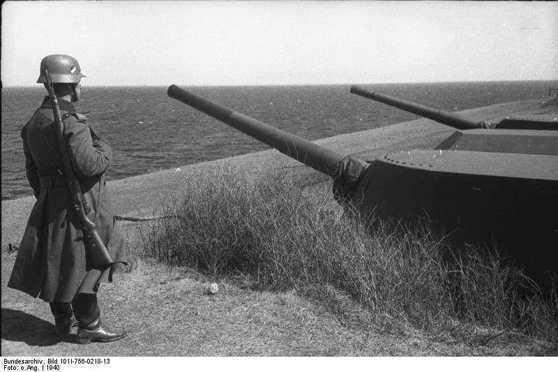 Denmark, coastal battery (Batterie Flakfort of 1./M.A.A. 508). A sentry posted next to armored turrets of an artillery installation on the coast.